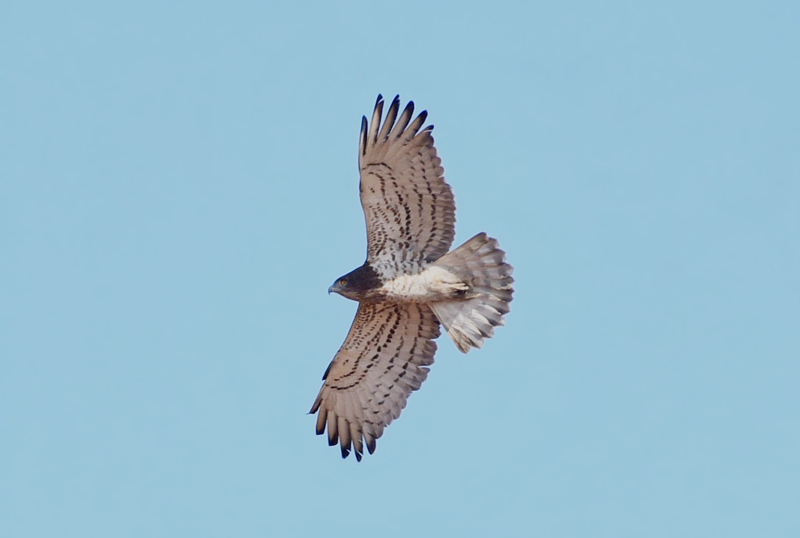 In flight from below from Shonklia, Nasirabad